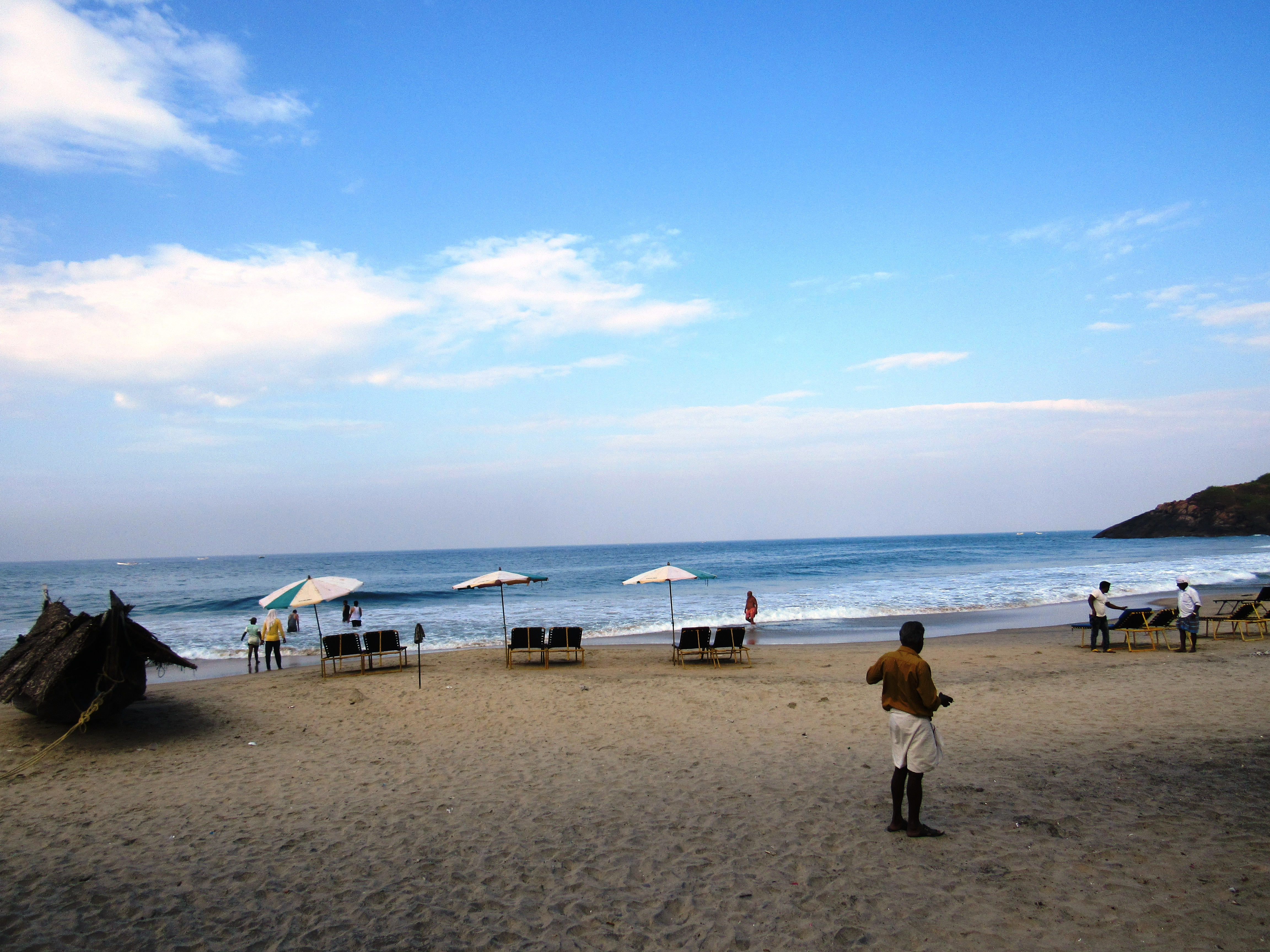 Kovalam Beach, in the early morning